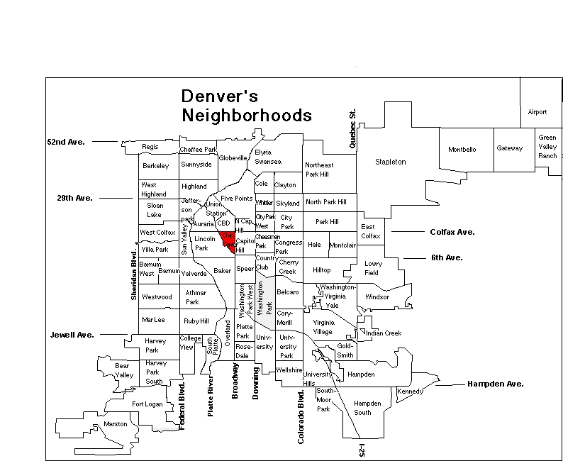 2006, Julio Trujillo